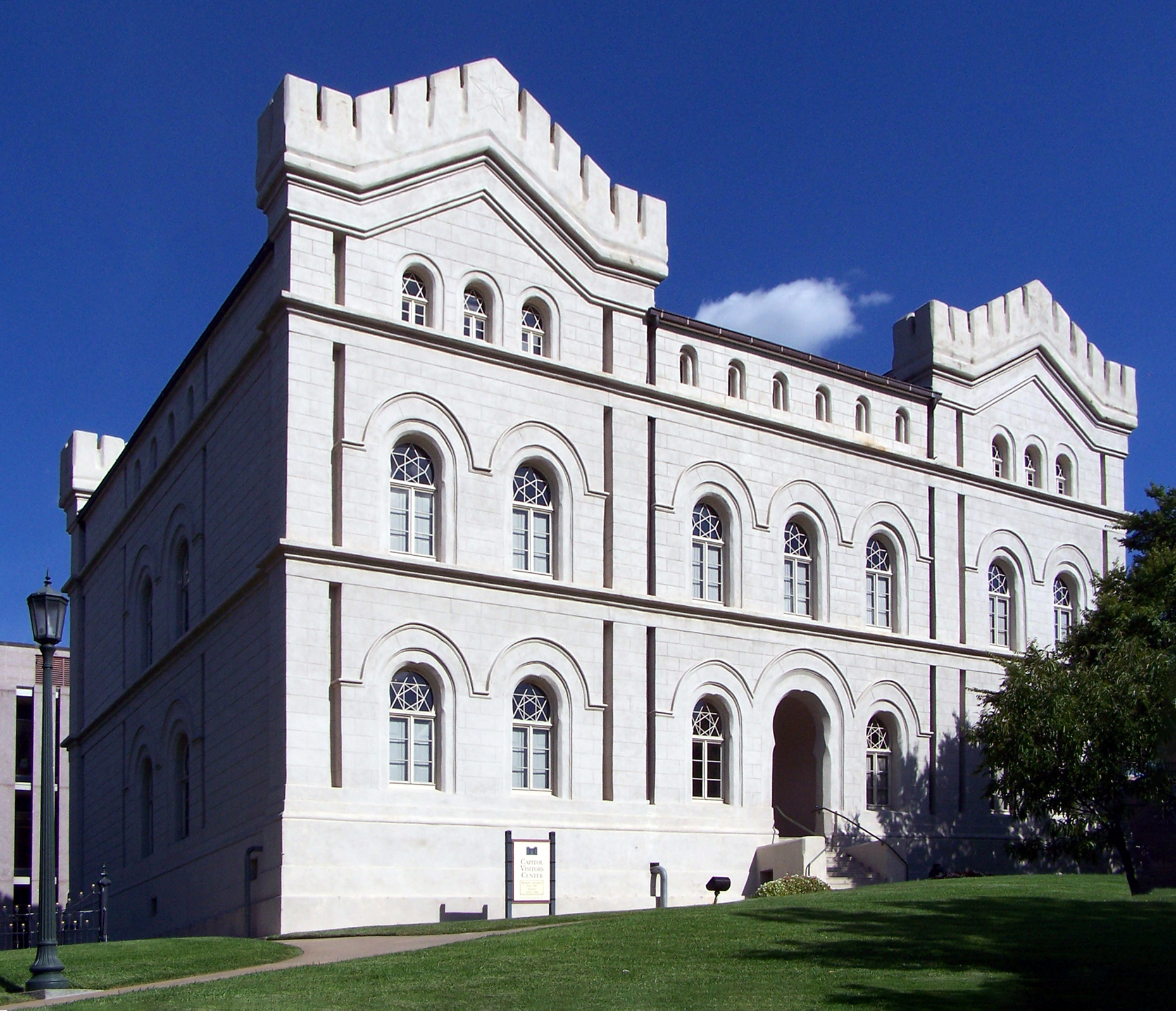 The General Land Office Building located in downtown Austin, Texas, United States. The State of Texas completed the new land office building in 1857. The building features a dramatic medieval castle style known as Rundbogenstil, or "rounded arch." William Sidney Porter, popularly known as O. Henry, worked in the Land Office as a draftsman from 1887-1891. The building was designated a Recorded Texas Historic Landmark in 1962 and listed on the National Register of Historic Places on August 25, 1970. Today it serves as the Texas Capitol Visitors Center.